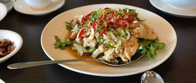 Yuringi (fried chicken with hot and sour soy sauce)